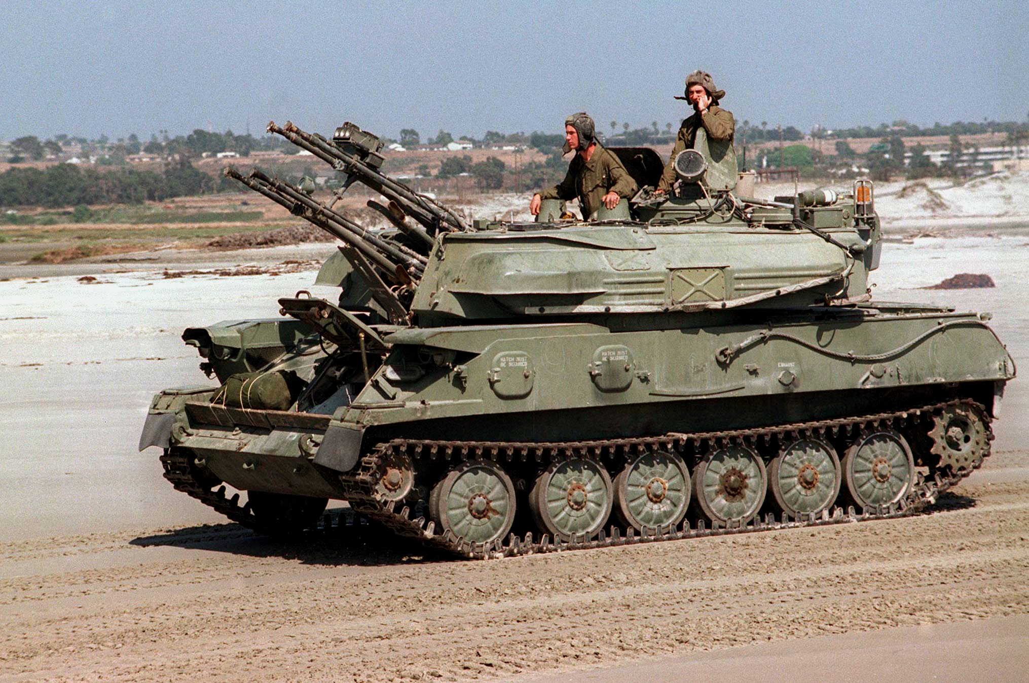 Description: Marines from the 1st Marine Division, 3rd Amphibious Armored Vehicle Battalion add realism to Exercise Kernel Blitz 97 by driving former Soviet bloc armored vehicles at Camp Pendleton, Calif., on June 21, 1997. Kernel Blitz 97 is a major amphibious exercise taking place in Southern California and waters offshore. More than 12,000 sailors, Marines, soldiers, guardsmen and airmen are involved in the exercise which is designed to test the Navy-Marine Corps team's ability to project combat power ashore. These Marines are acting as the opposing force, commonly called the OPFOR. DoD photo by Sgt. Ryan Ward, U.S. Marine Corps.